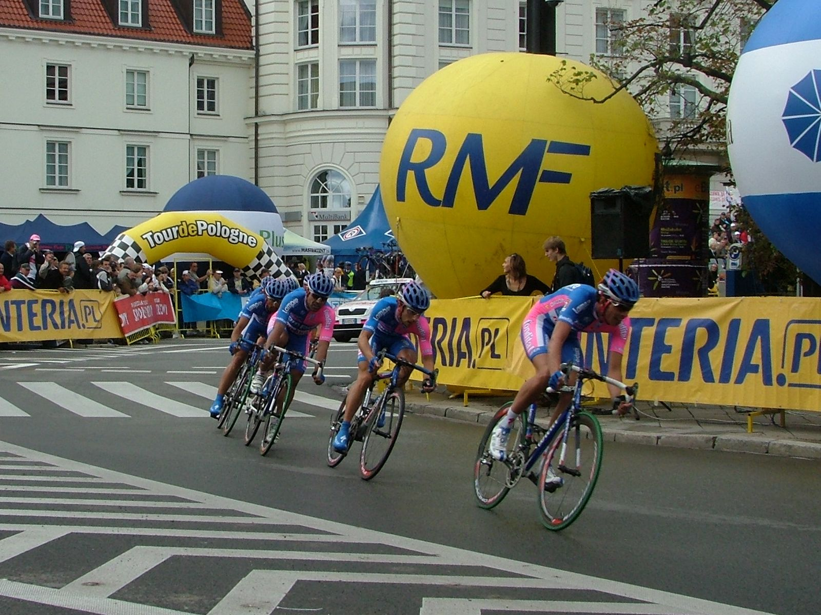 Poland, Warsaw, Tour de Pologne 2007, Stage 1